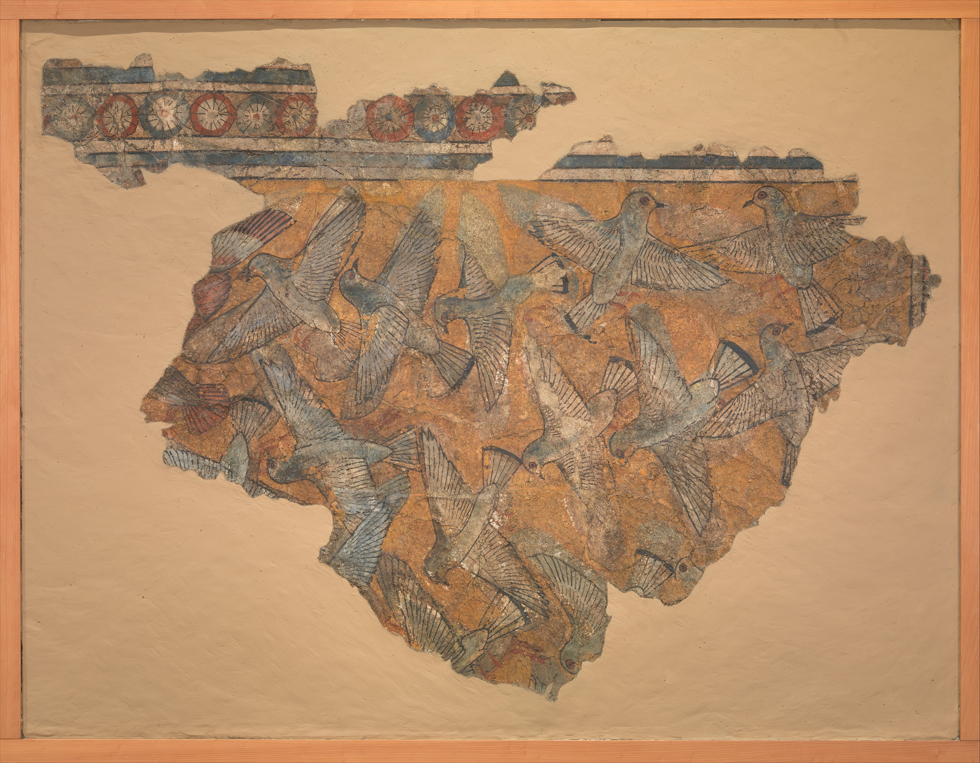 Ceiling painting, palace of Amenhotep III, Malqata